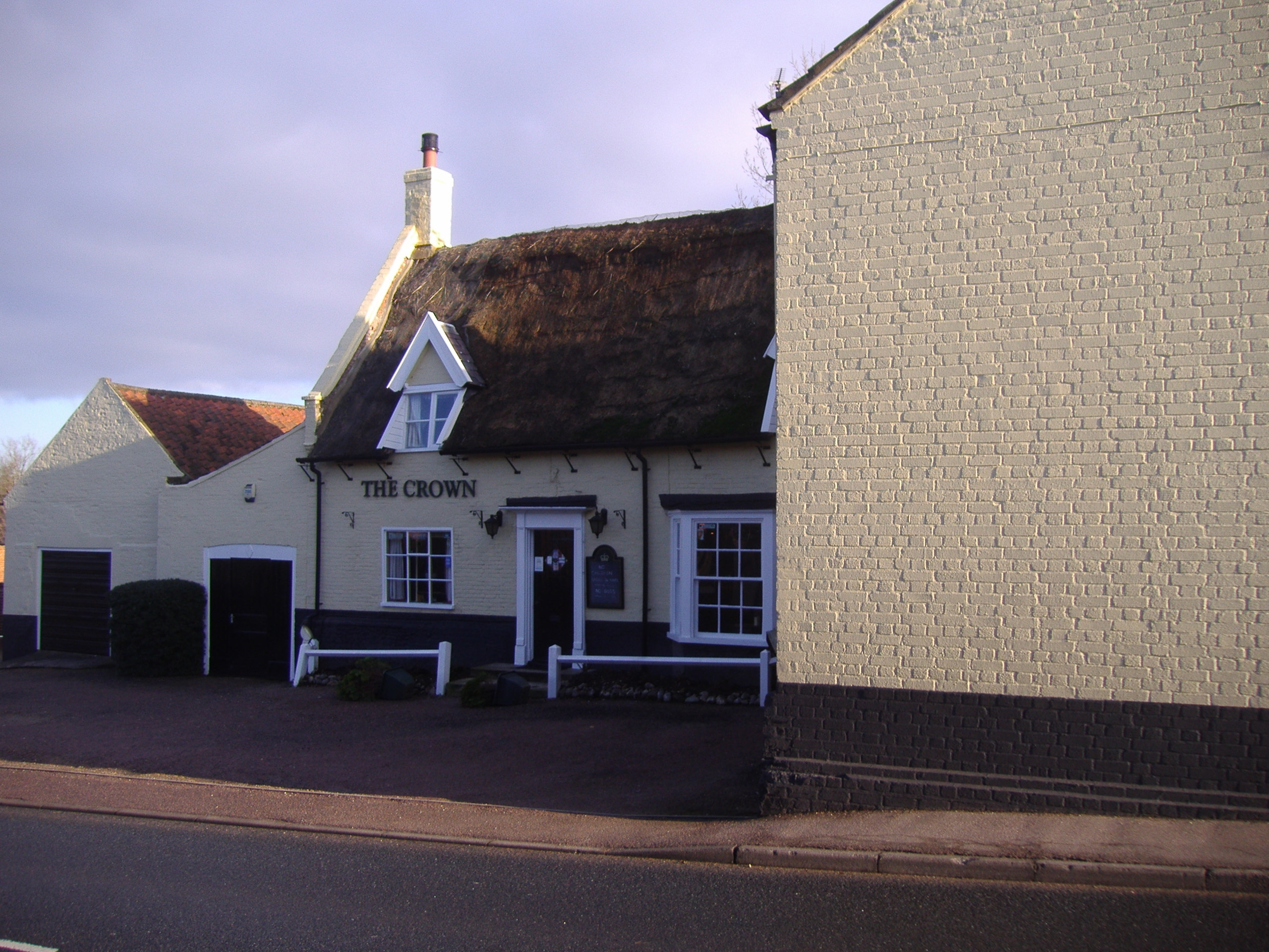 A Digital Photograph of the Crown Inn, Smallburgh, Norfolk Taken on the 12th January 2008 by Haydnaston (talk) 14:30, 12 January 2008 (UTC)